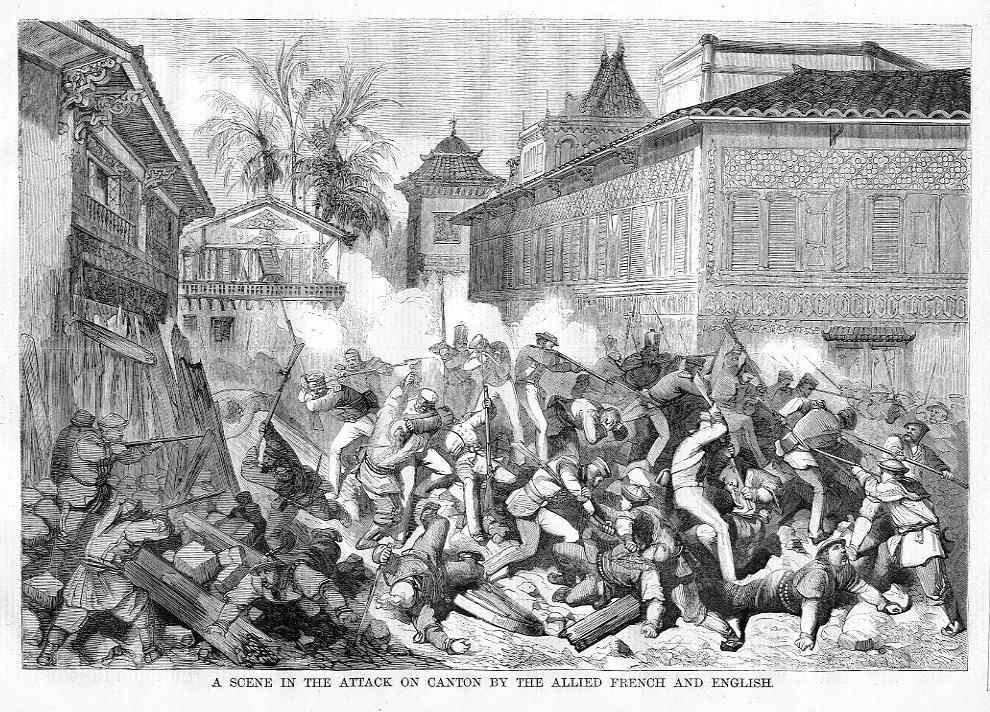 "A scene in the attack on Canton by the allied French and English". The European force starts the Skirmish into the West Gate, Canton in 1858.